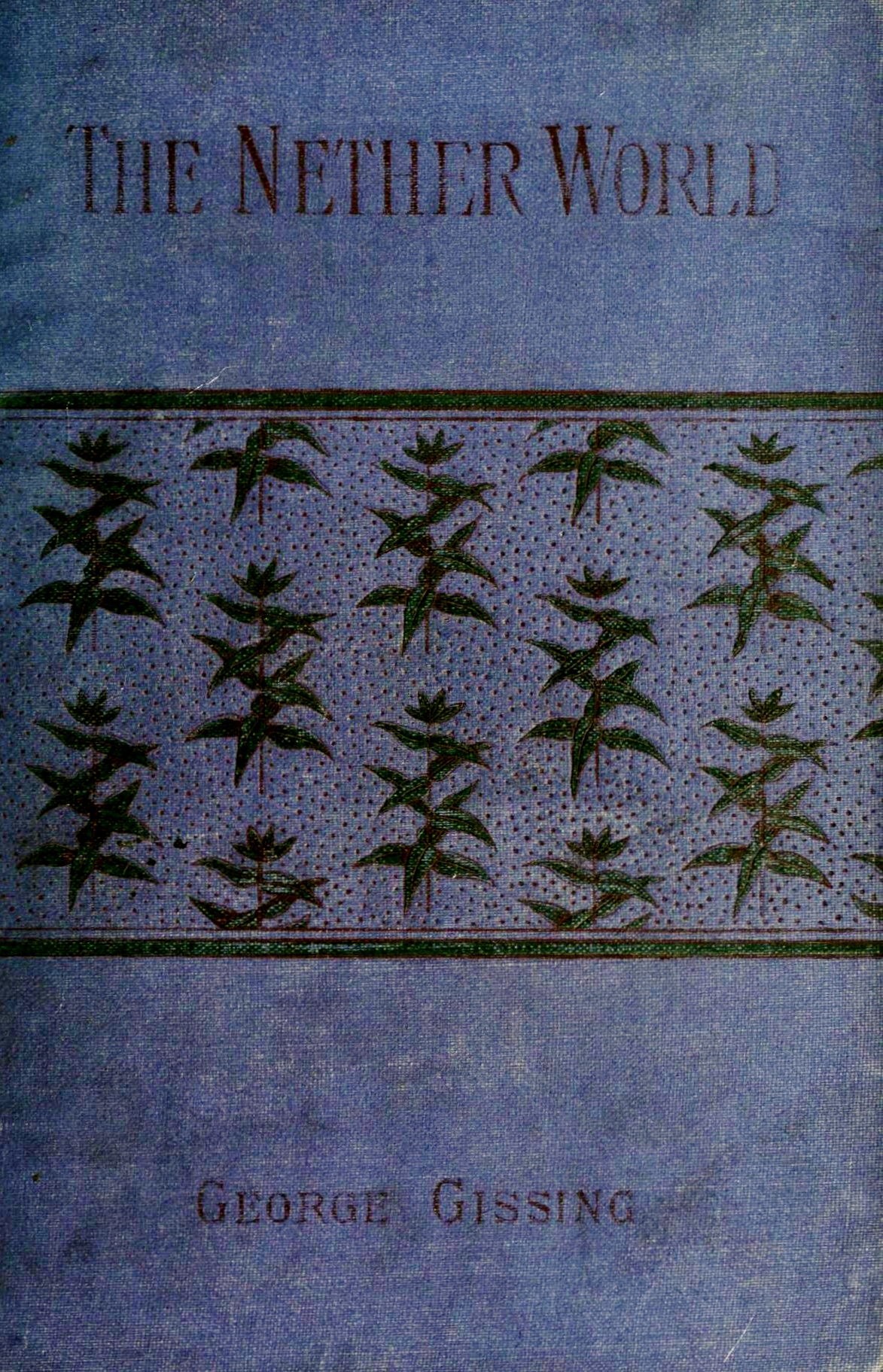 Gissing, The Nether World, 1st edition cover